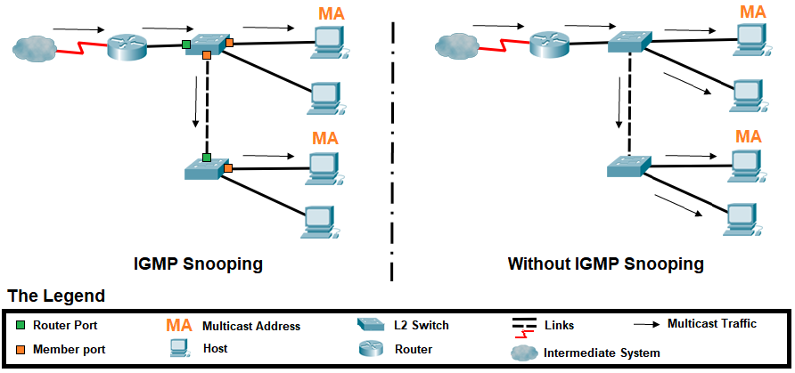 An Example of the effect of IGMP snooping on the traffic in a LAN.